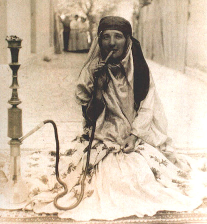 Dr Elizabeth Ness Macbean Ross in Bakhtiari costume circa 1909